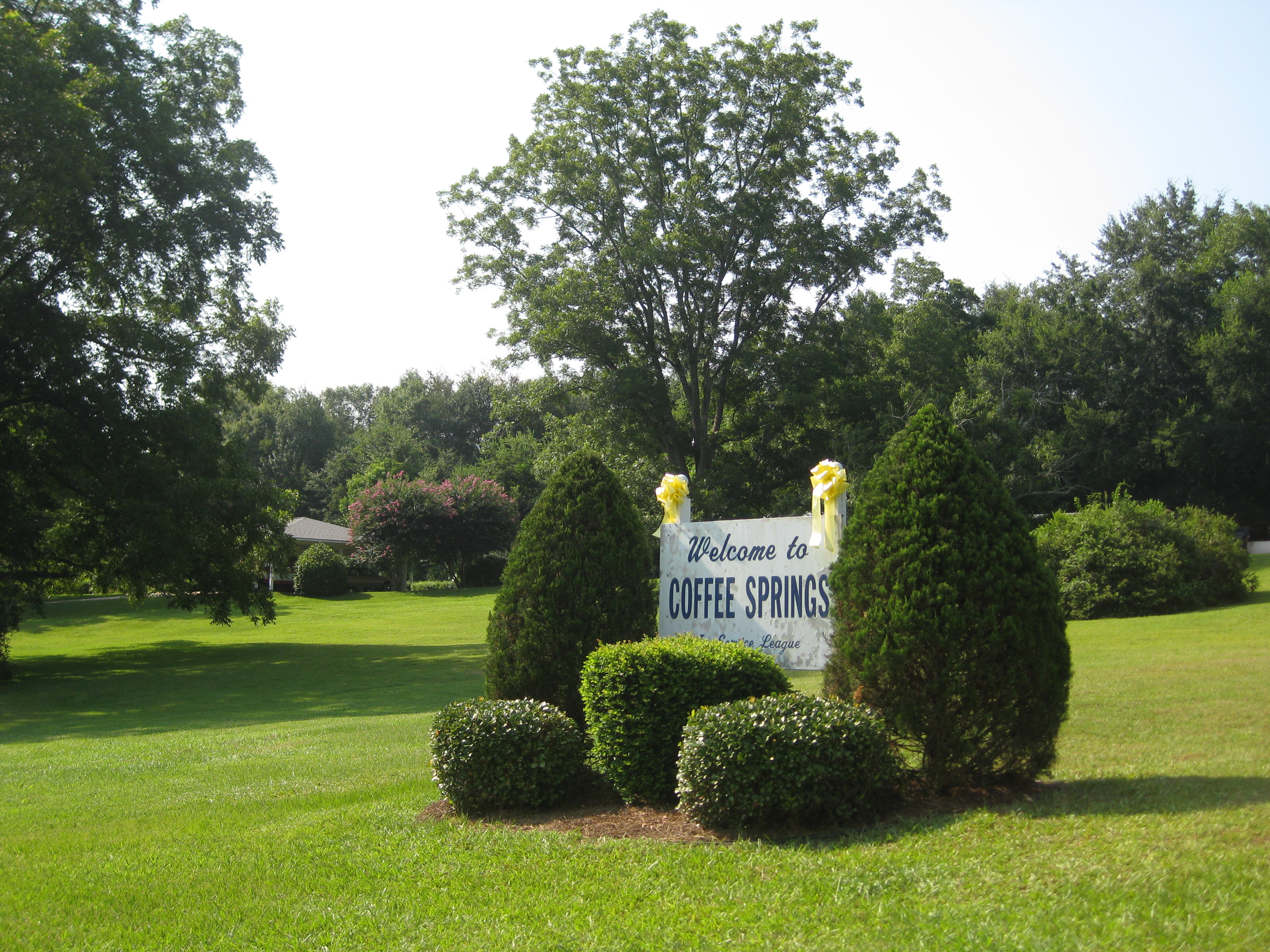 Welcome sign greeting travelers along Geneva County Road 40 as they reach the town of Coffee Springs, Alabama.